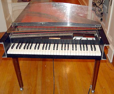 Baldwin Combo electronic harpsichord